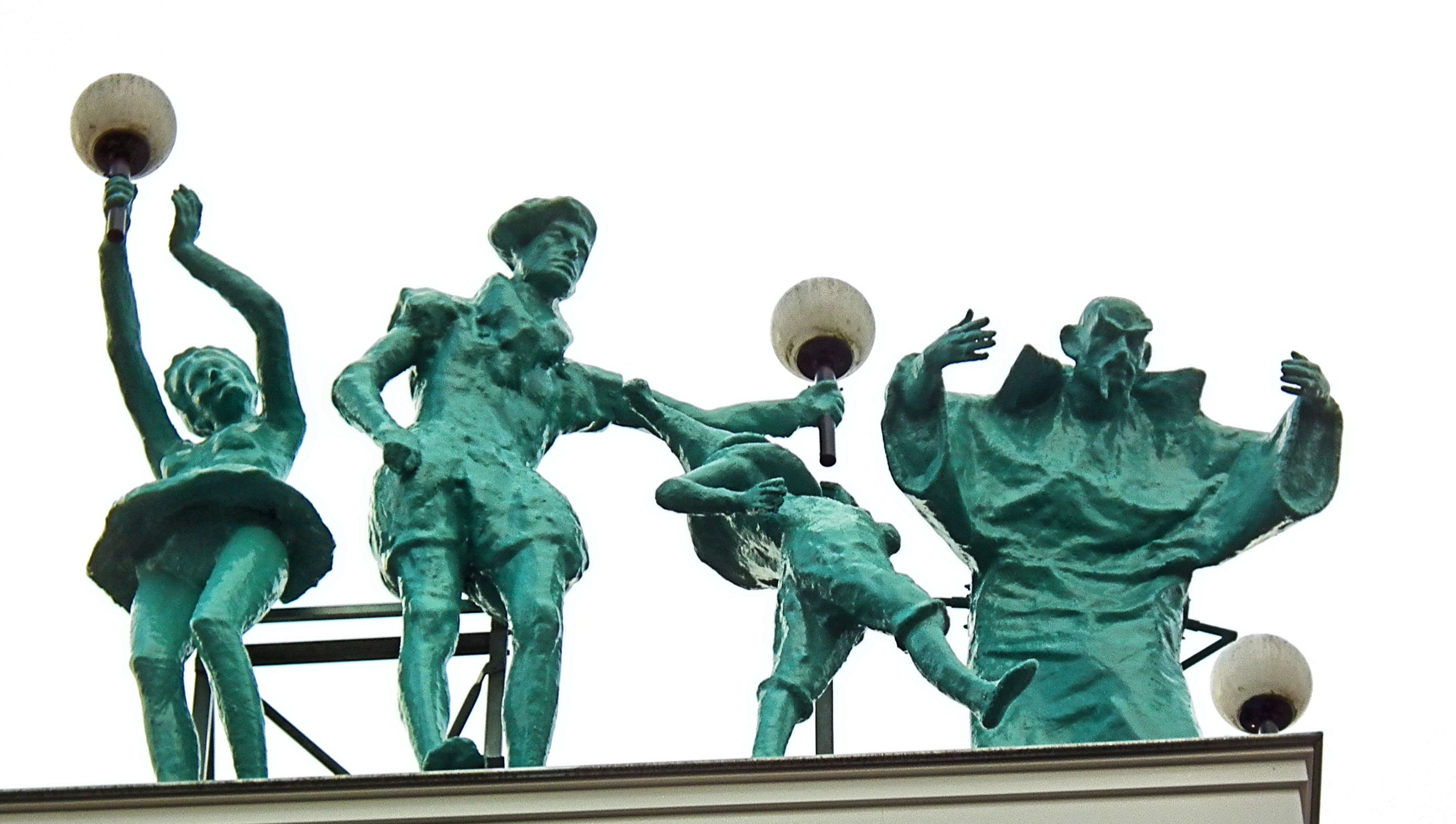 The Netherlands - Enschede - former Twenthe theater